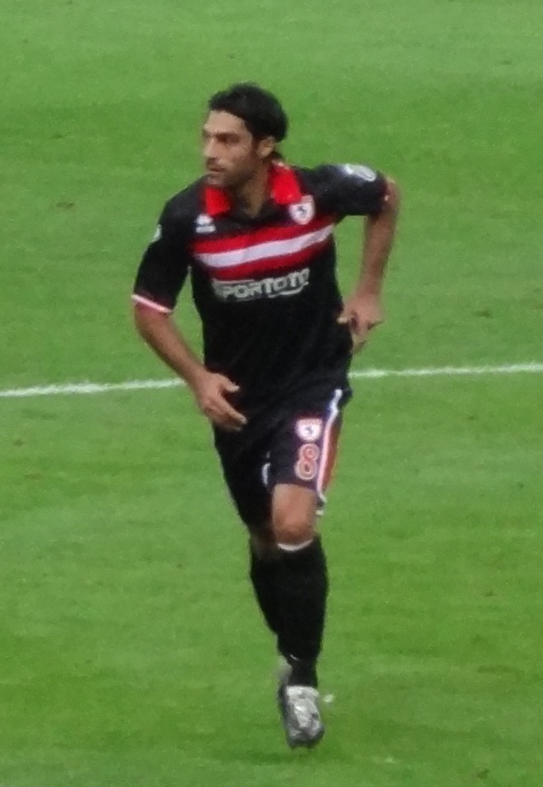 mustafa against galatasaray he scored his goal against his old team but Samsunspor loss 1-3